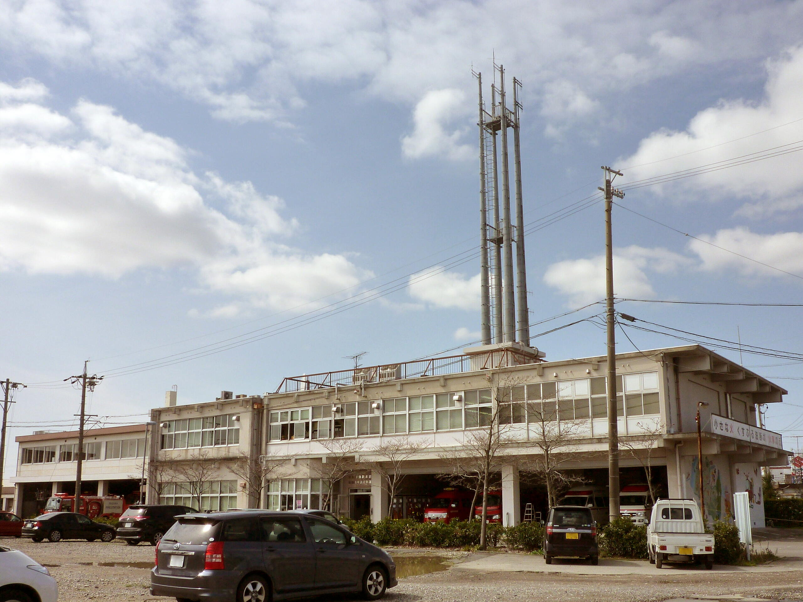 The "Suzuka City Central Fire Station" in Iinojikechō, Suzuka City, Mie Prefecture, Japan.